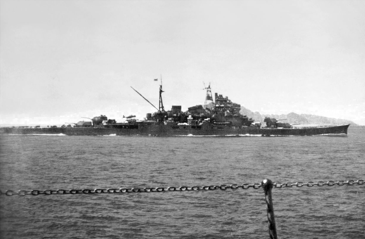 日本海軍重巡洋艦 「摩耶」 昭和19年5月、フィリピン・タウイタウイで訓練中。 MAYA, heavy cruiser of the Imperial Japanese Navy, on training run off Twitwi, Philippine.